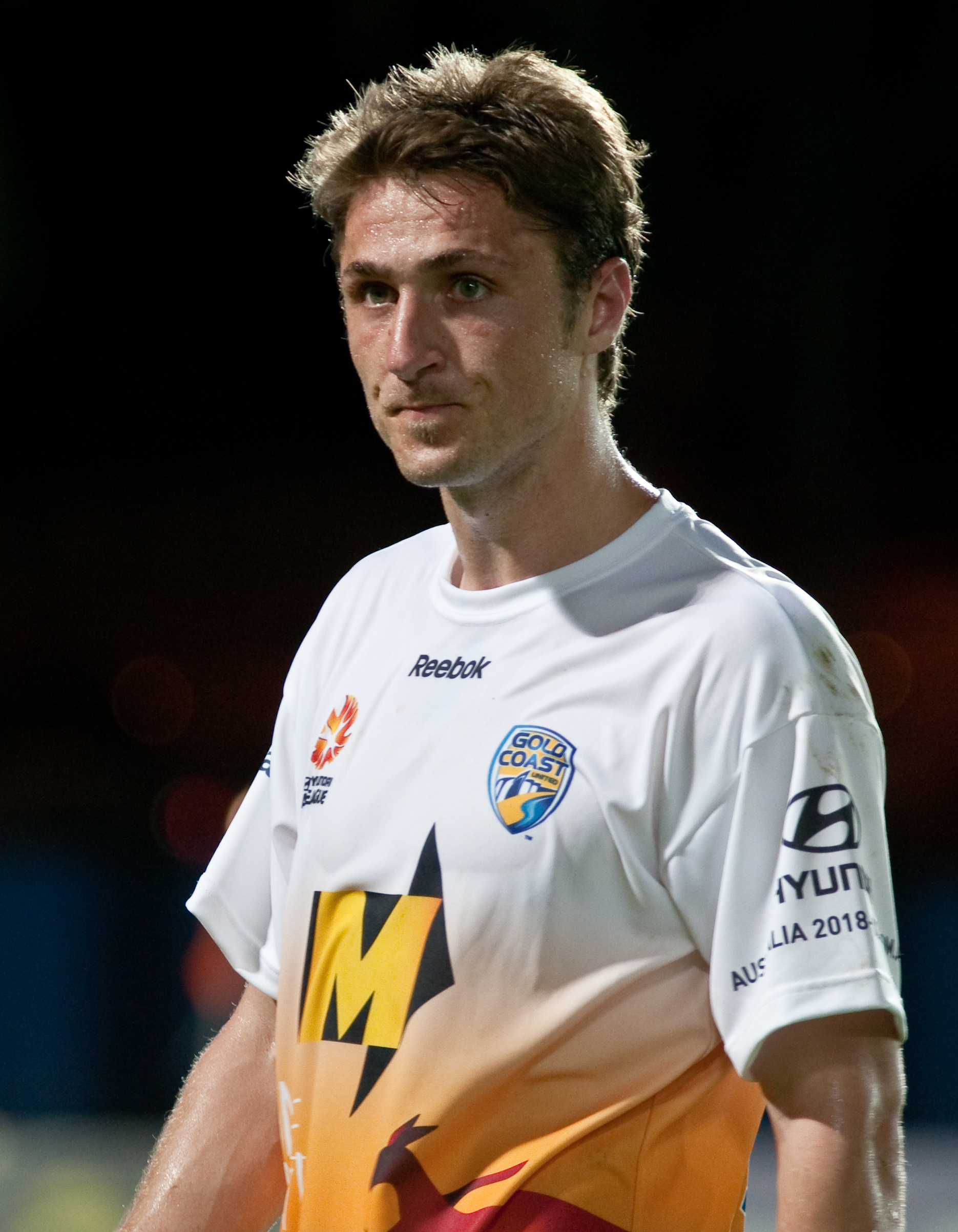 Dino Djulbic after playing for Gold Coast United against the Central Coast Mariners.